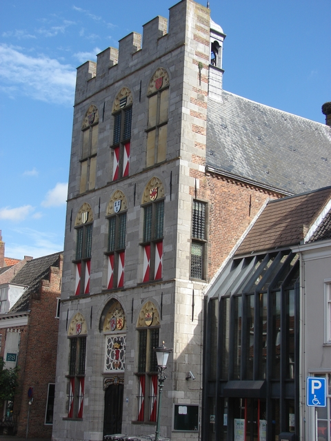 Cityhall of Vianen